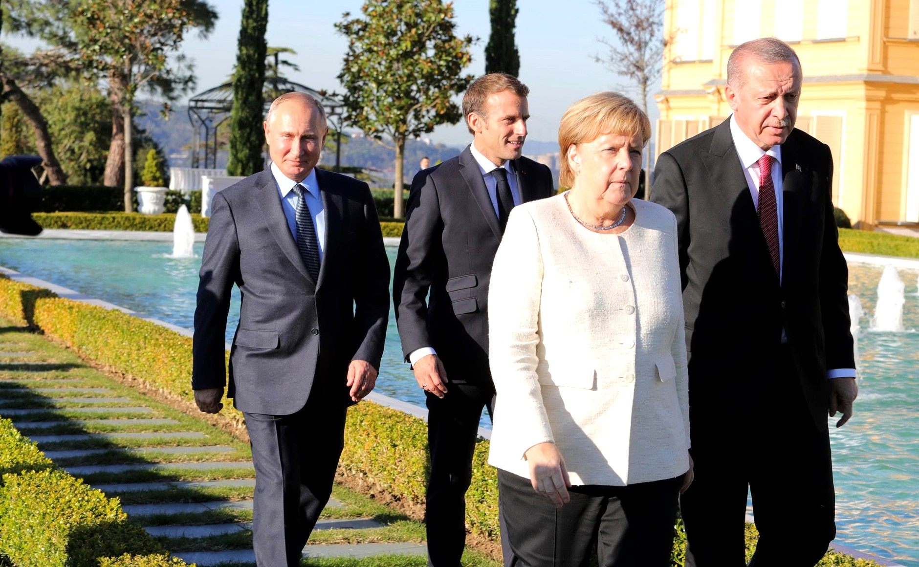 Before the meeting of the leaders of Russia, Turkey, Germany and France. From left: Vladimir Putin, President of France Emmanuel Macron, Federal Chancellor of Germany Angela Merkel and President of Turkey Recep Tayyip Erdoğan, Istanbul, Turkey.